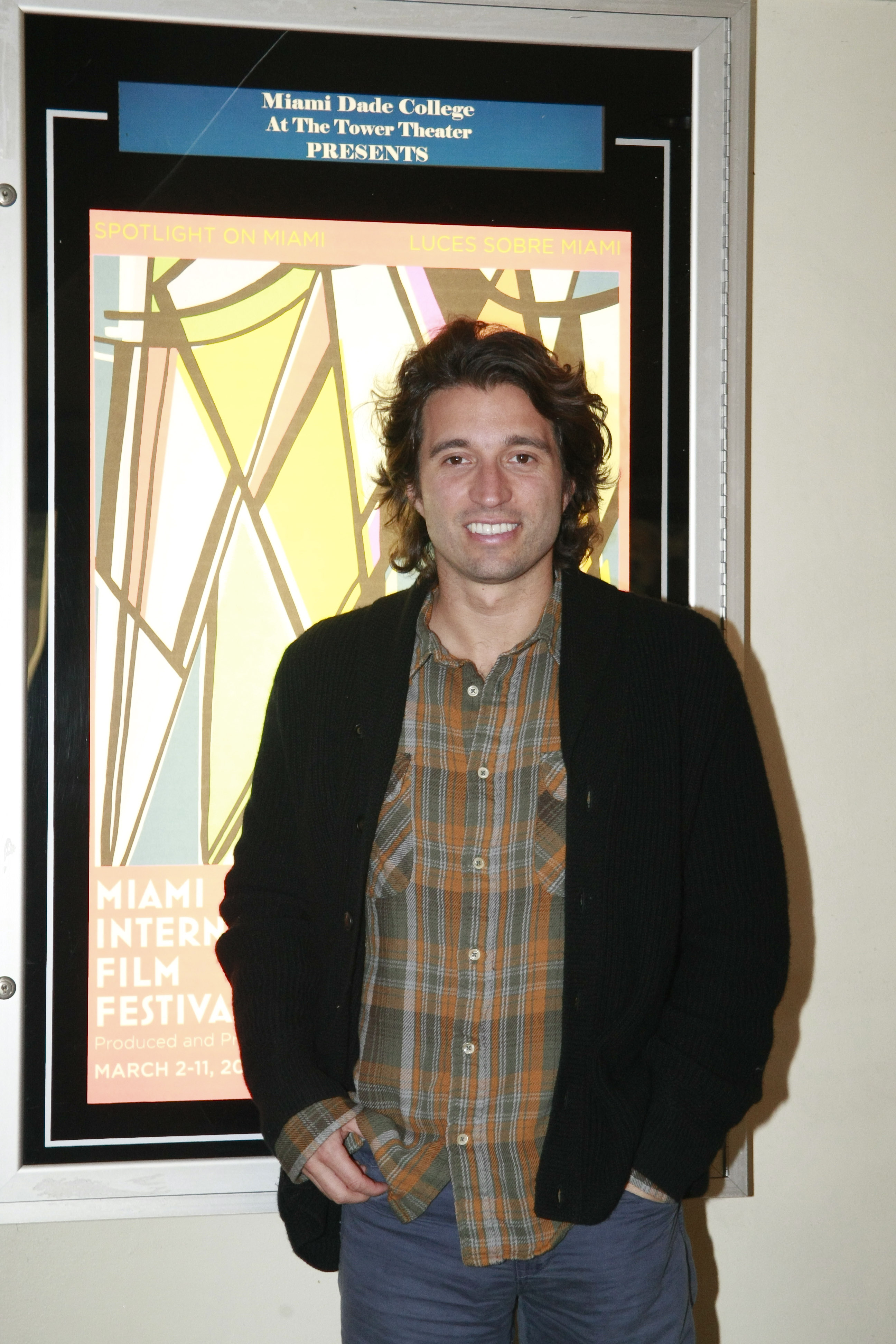 Director Alejandro Landes at the 2012 Miami International Film Festival showing of Porfirio at Tower Theater